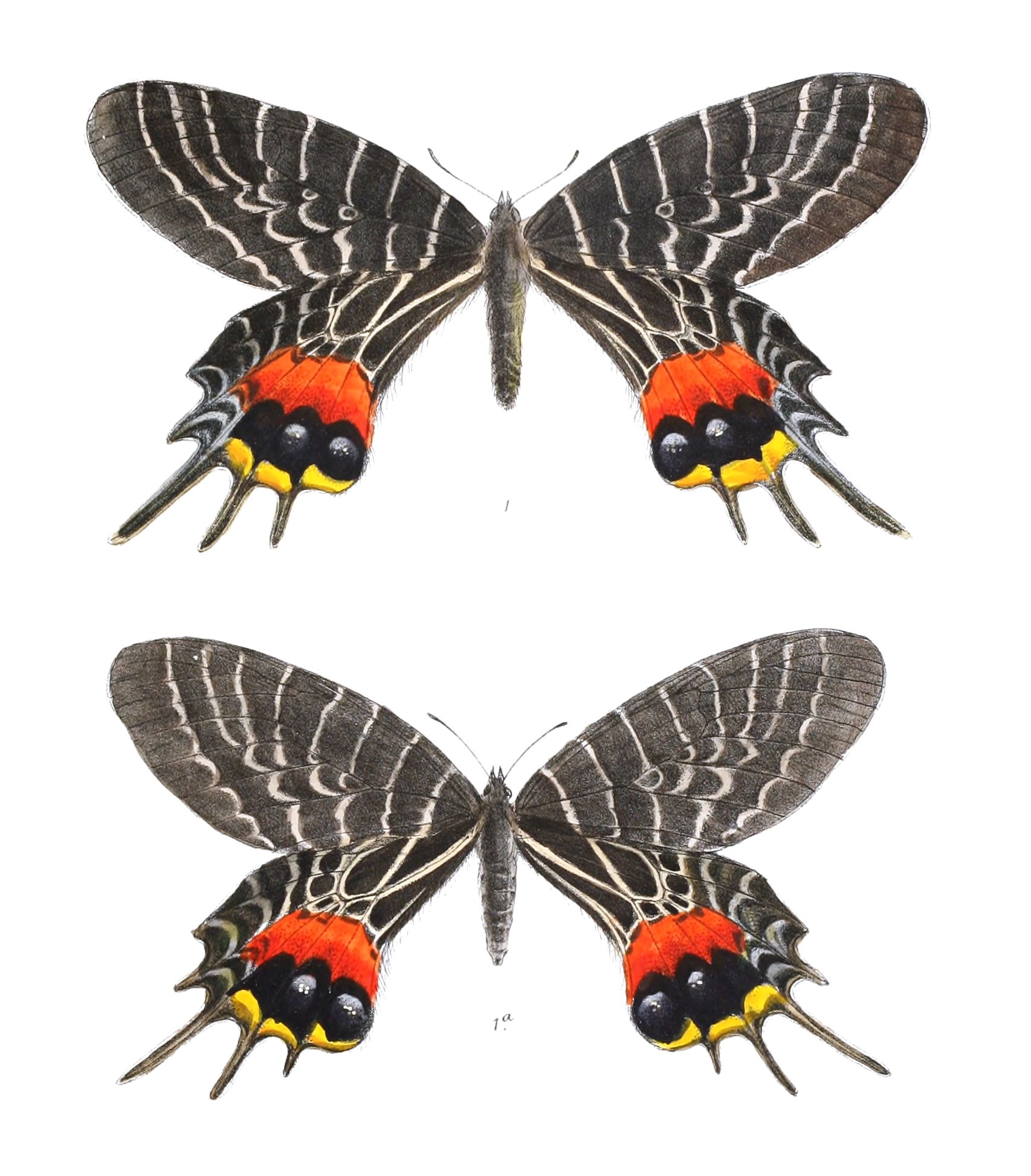 Armandia lidderdalii = Bhutanitis